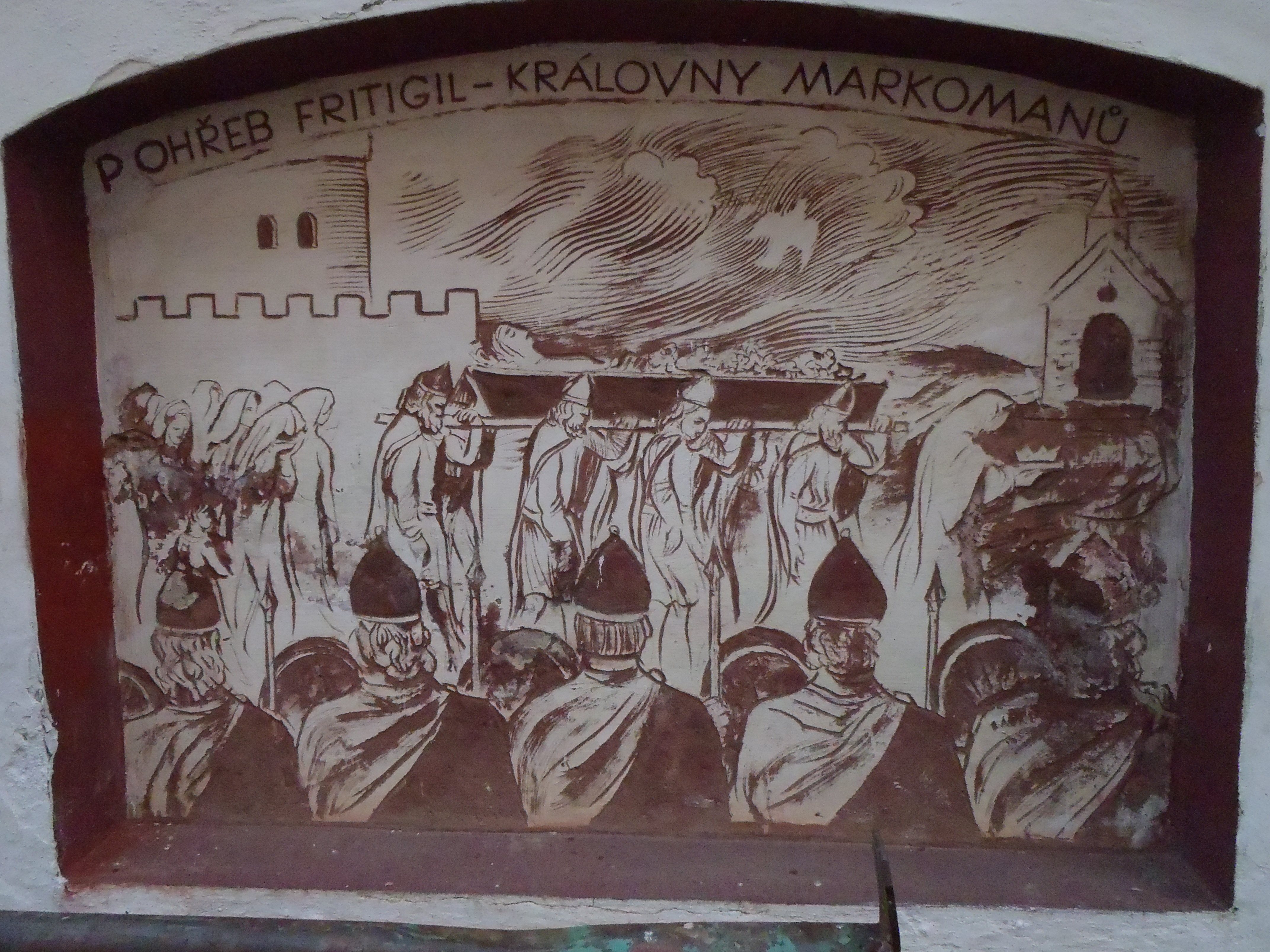 Žarošice, mural in the pilgrimage areal - Funeral of Fritigil, queen of Marcomanni